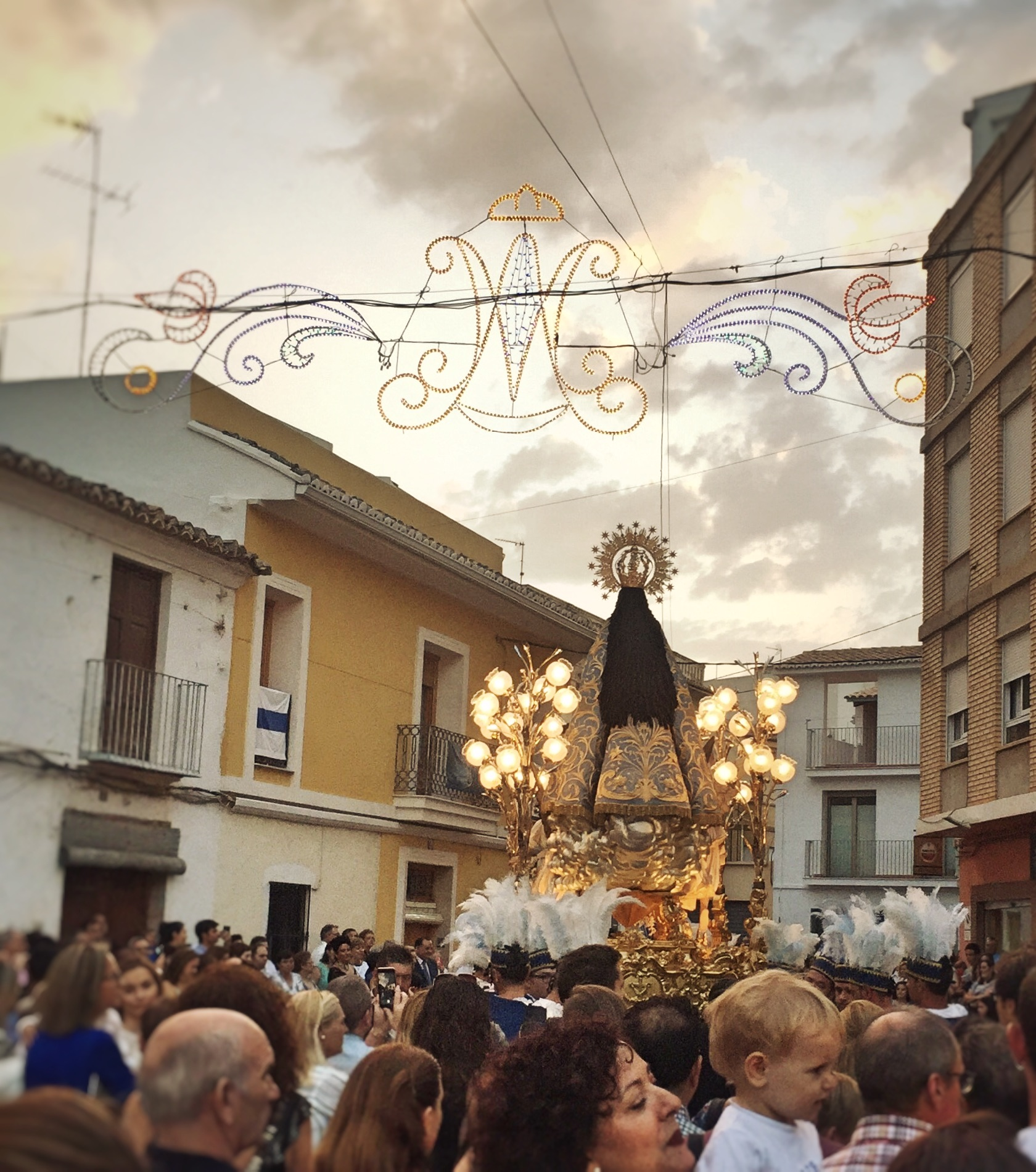 Virgin Mary, Liria, Valencia, Spain - Starting the procession